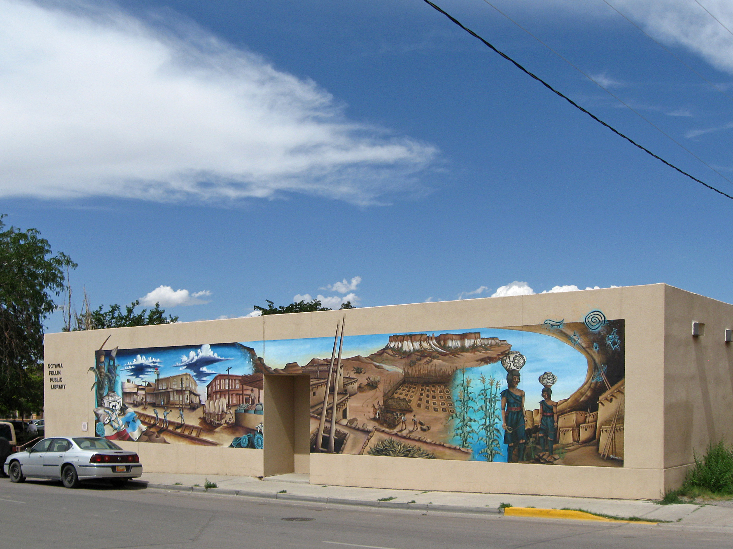 Octavia Fellin Public Library, located at 115 W. Hill Avenue in Gallup, New Mexico.